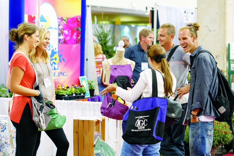 Vendors educate IGC owners, managers and buyers about their latest products to the IGC industry.